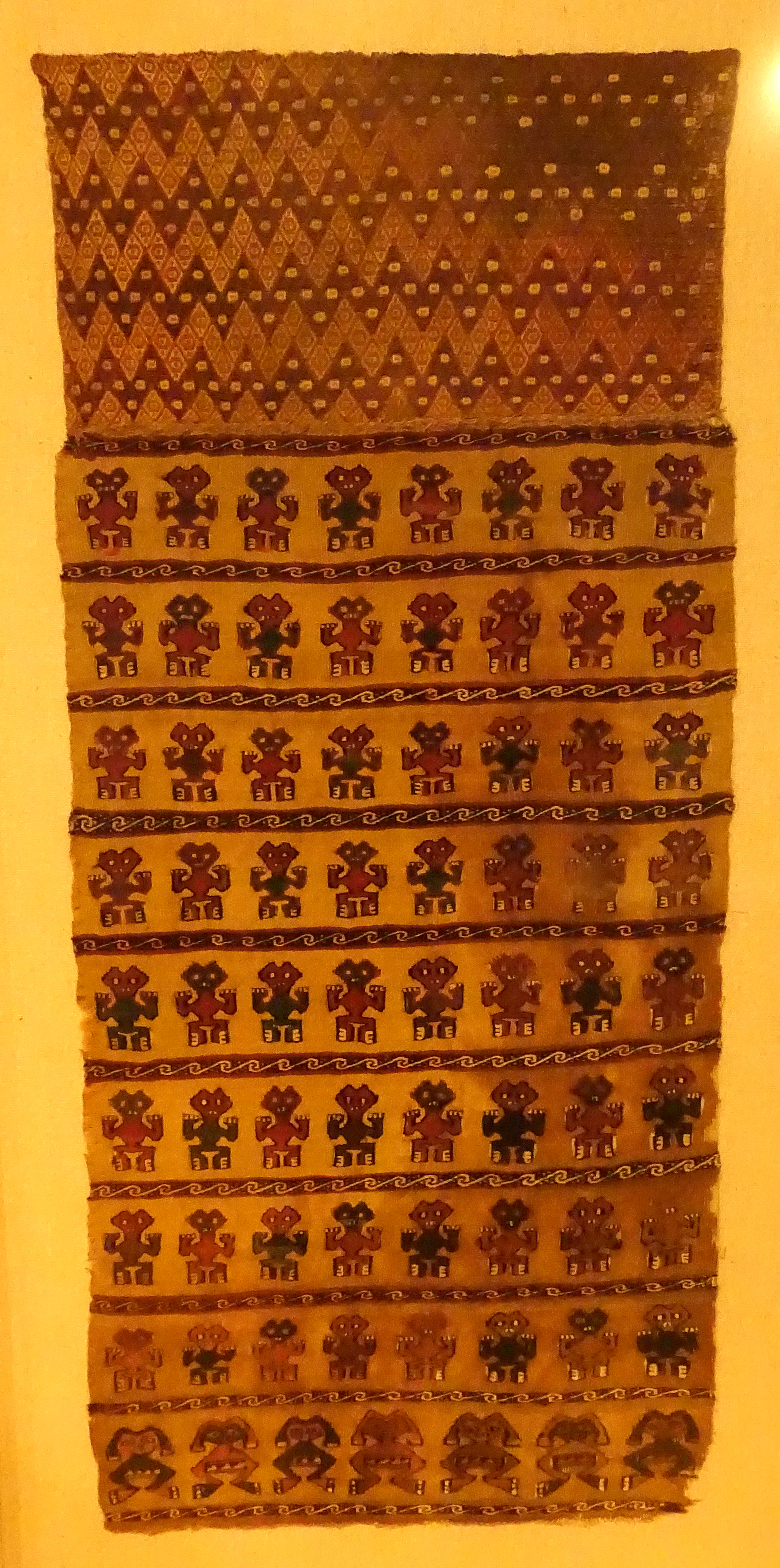 Exhibit in the Krannert Art Museum, University of Illinois at Urbana-Champaign - Urbana-Champaign, Illinois, USA. This work is old enough so that it is in the public domain.